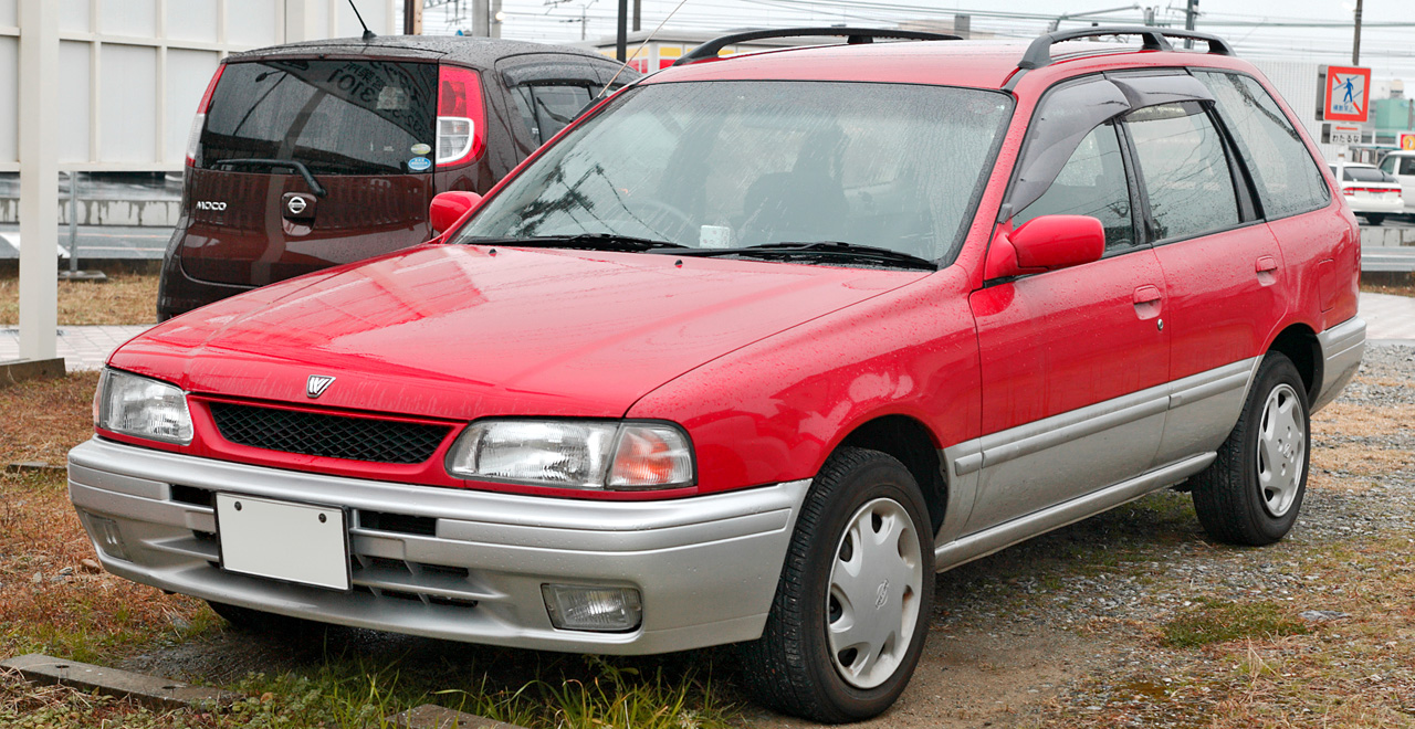 Nissan Wingroad Y10 1.5 JS Limited